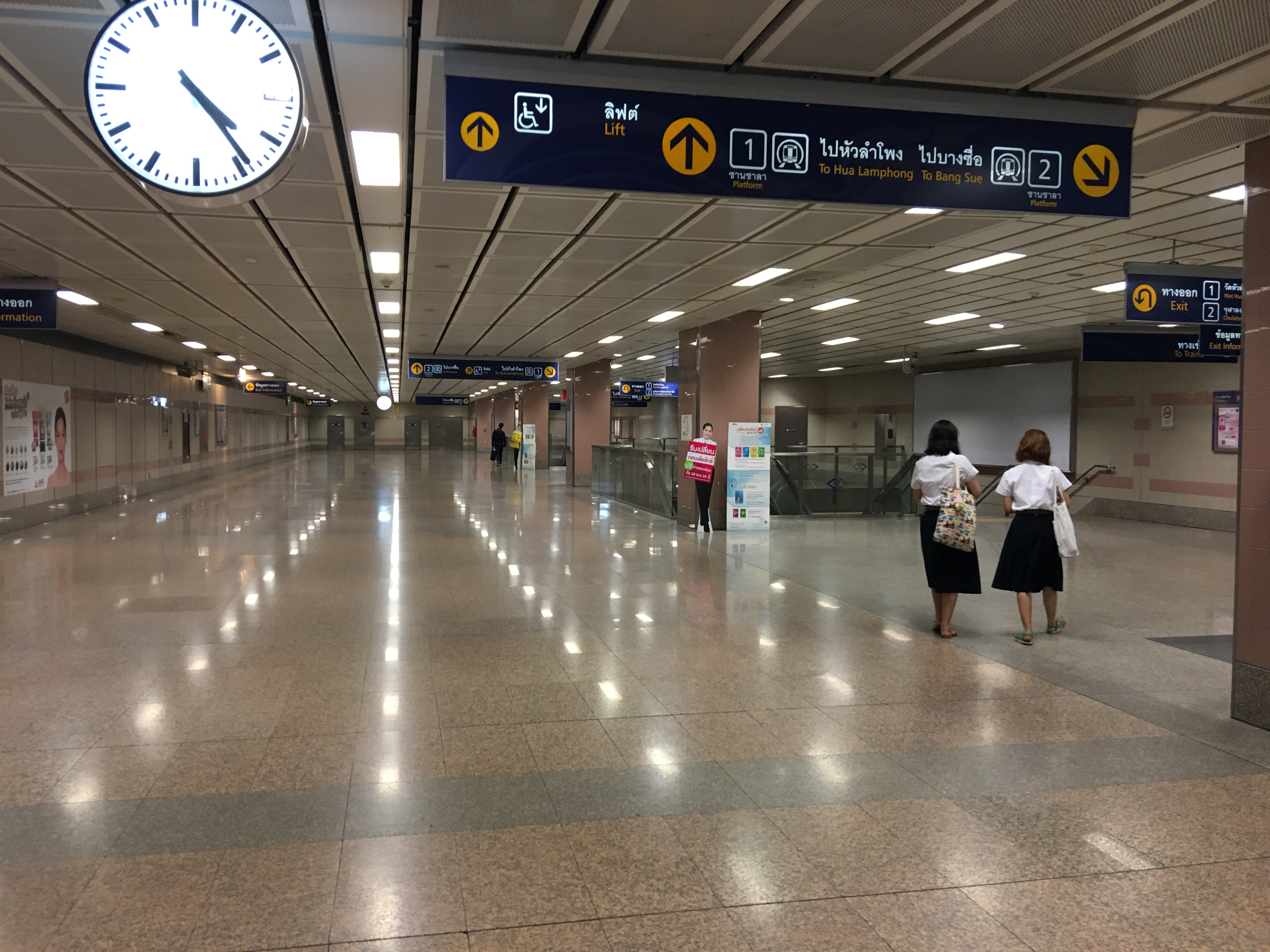 The concourse level of Sam Yan Station